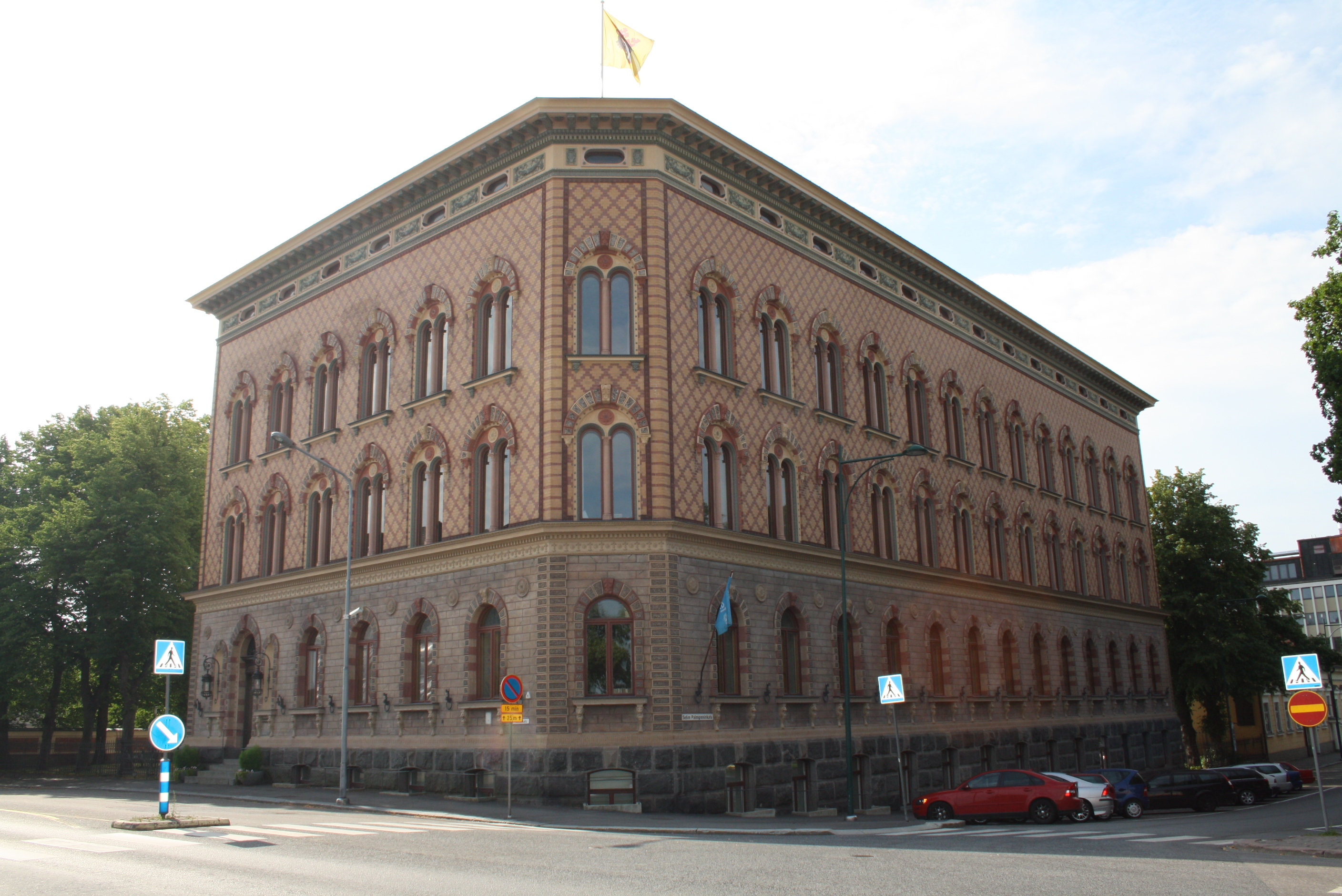 Pori Town Hall